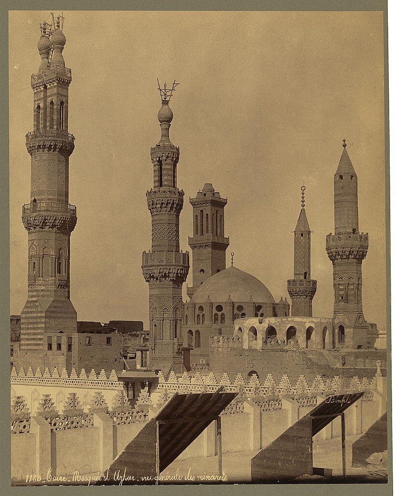 Title: Caire. Mosquée el-Azhar, vue générale des minarets / Bonfils. Abstract/medium: 1 photographic print : albumen.